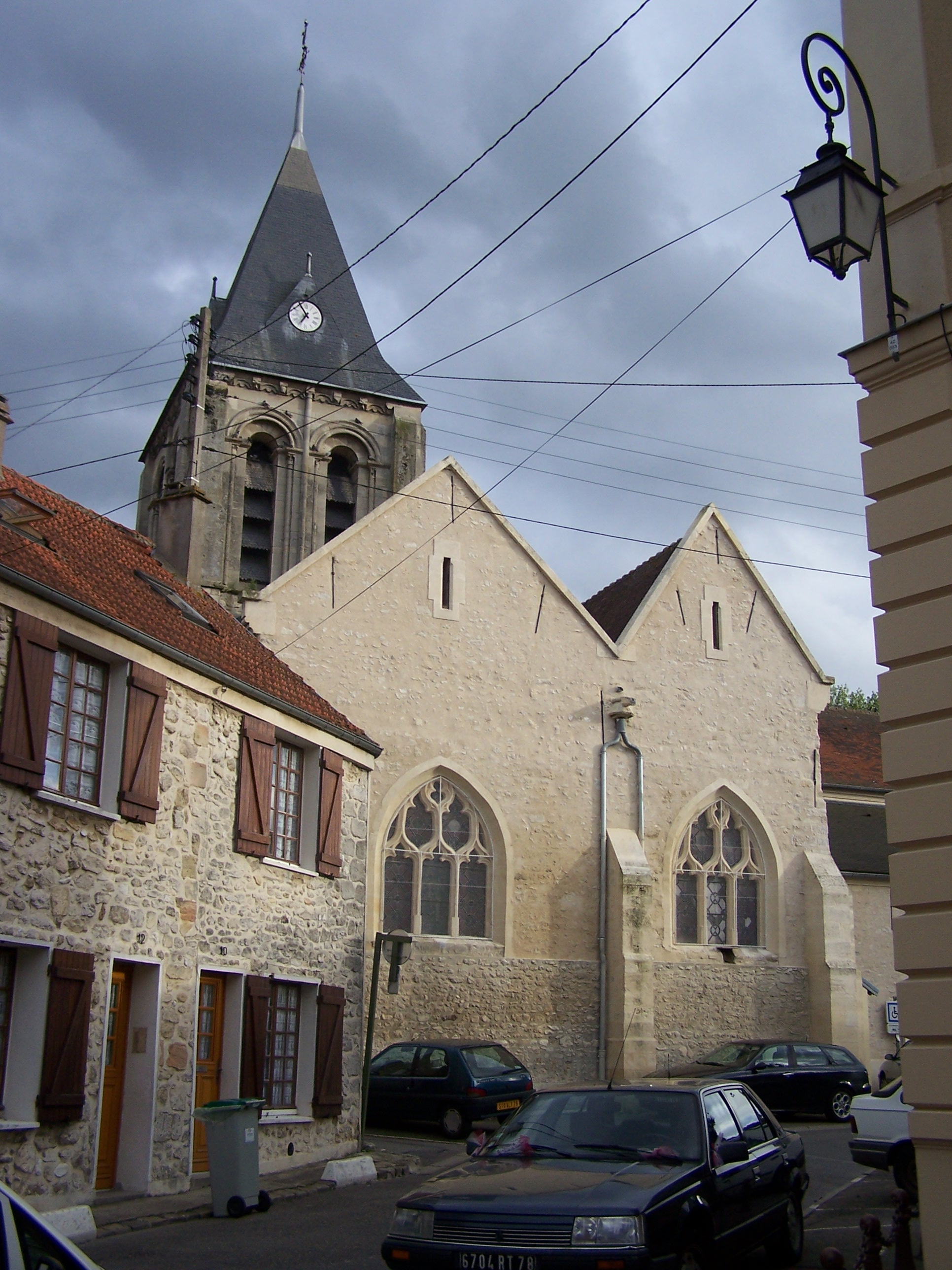 Church Saint-Germain of Villepreux (Yvelines, France). Personal photo. Auteur/Author : Henry Salomé